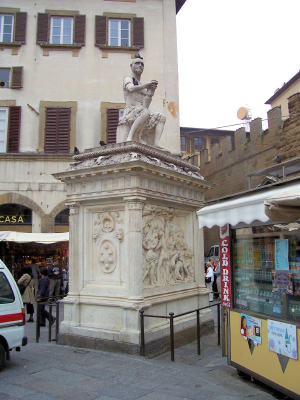 The monument to condottiero Giovanni dalle Bande Nere (Giovanni de' Medici, father to Cosimo I de' Medici), was sculpted by Baccio Bandinelli in 1540 and stands in Piazza san Lorenzo square in Florence. Left incomplete for a long time (the statue was in Palazzo Vecchio) it was completed at last in 1850.